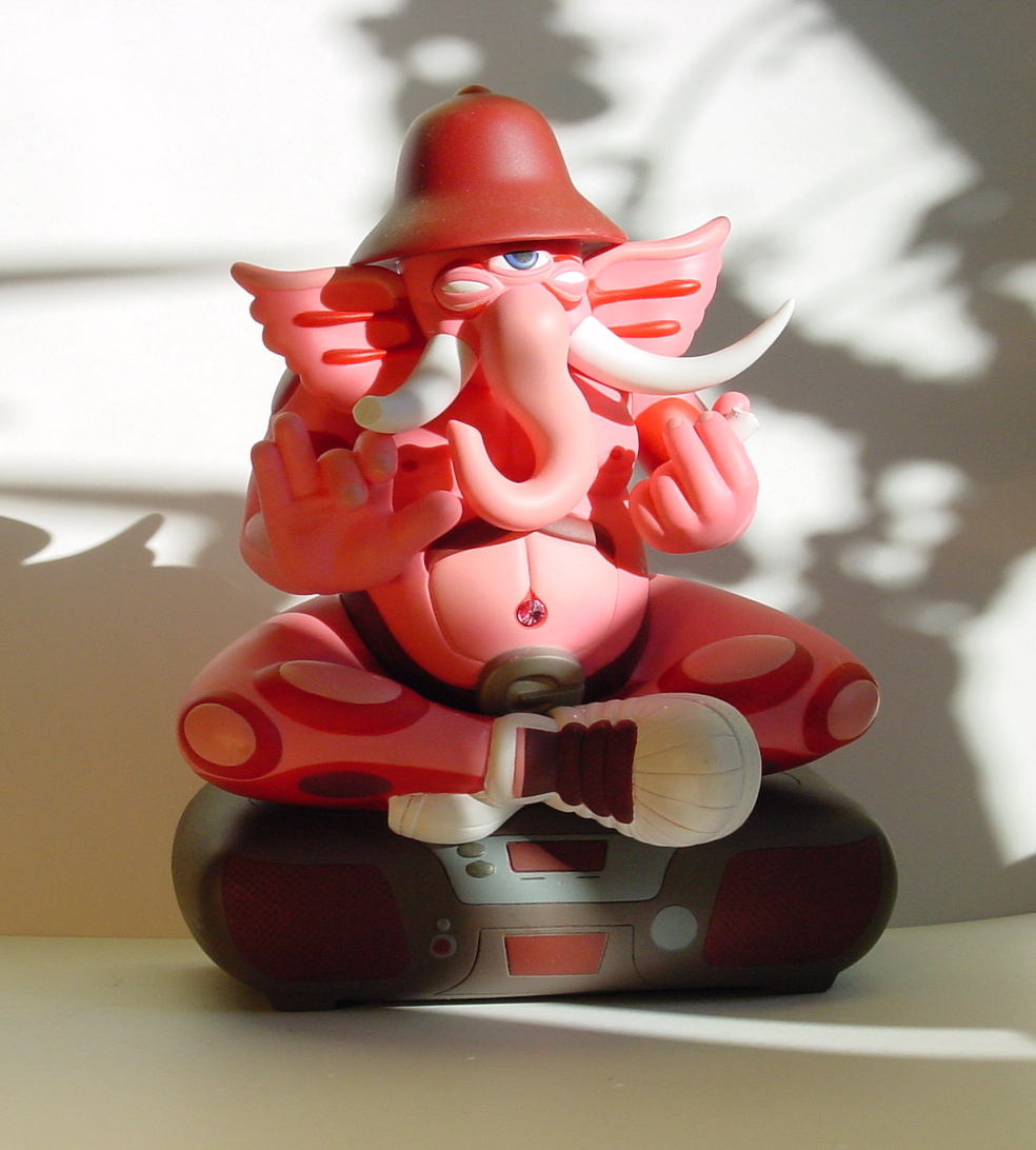 designer toys - Ganesh by Doze Green